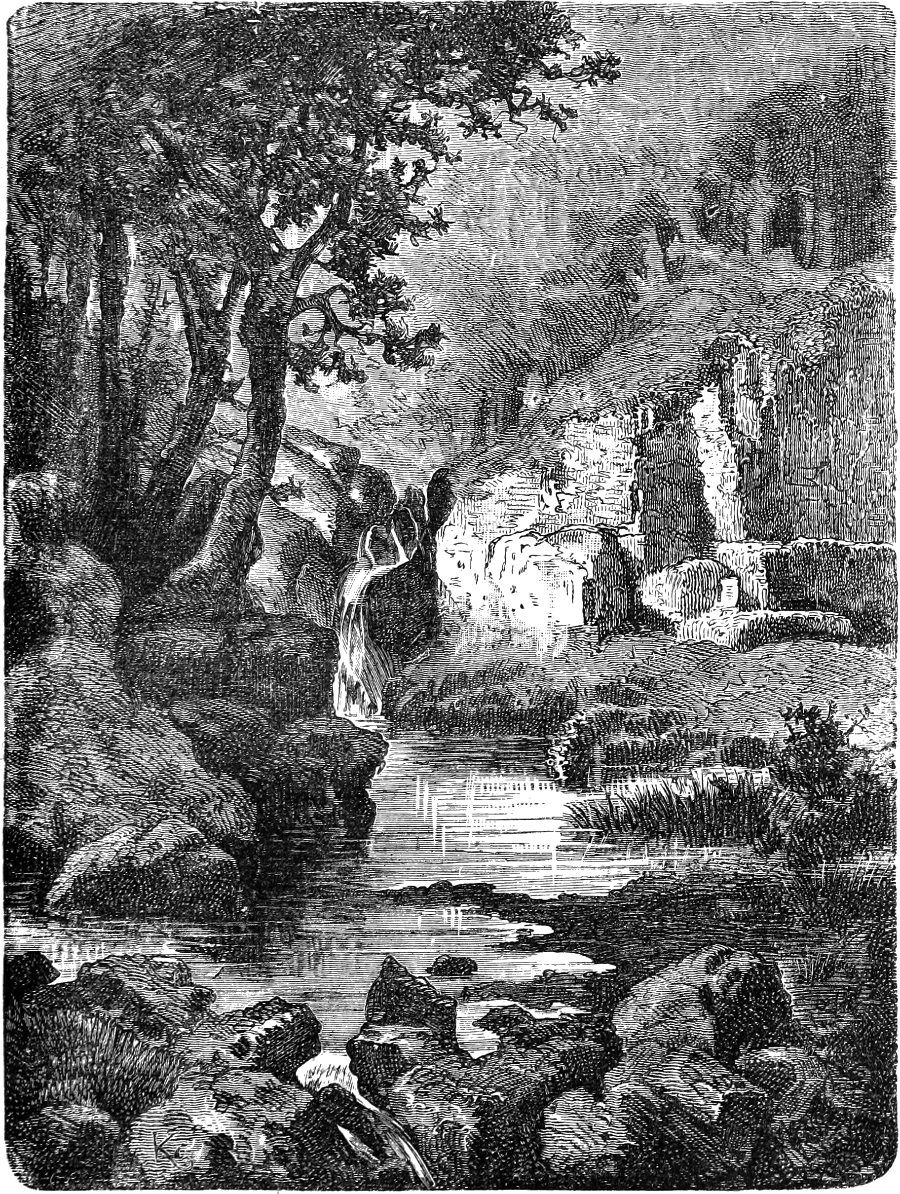 Buyspoort, rocky cleft in the Bushveldt, from the book Seven Years in South Africa, volume 1, page 413